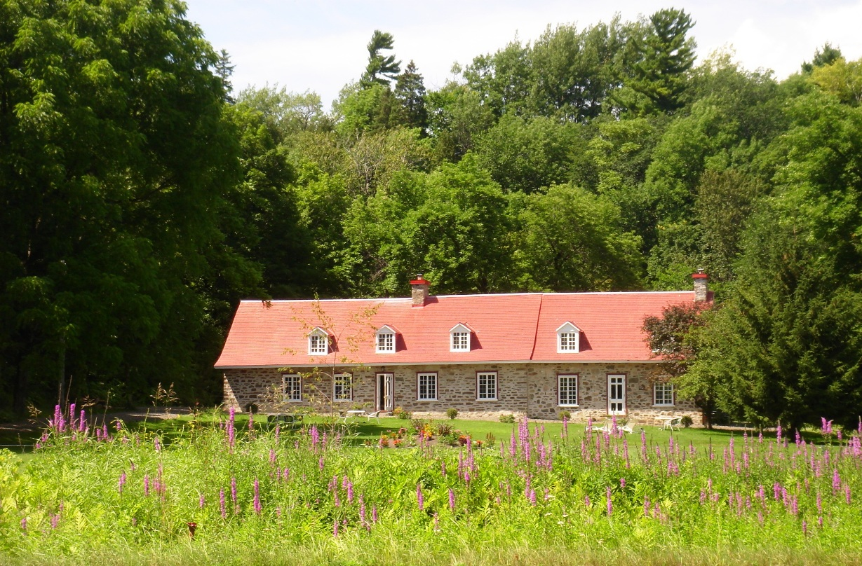 Old red house in Château-Richer, Quebec